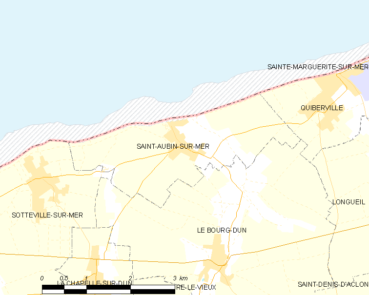 Map of French municipality Saint-Aubin-sur-Mer